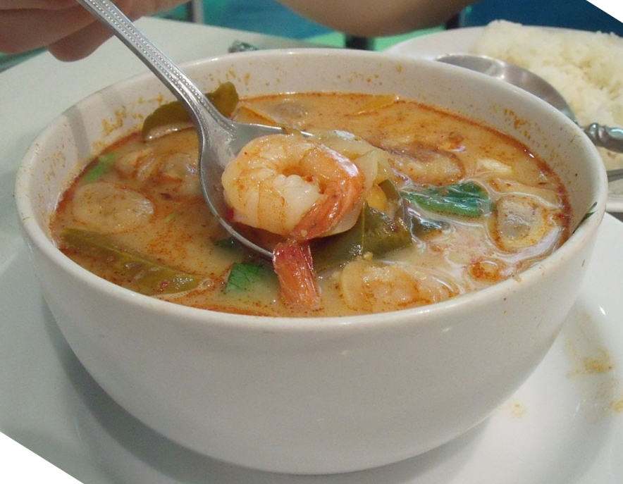 I had Tom Yum Soup in Bangkok, Thailand.